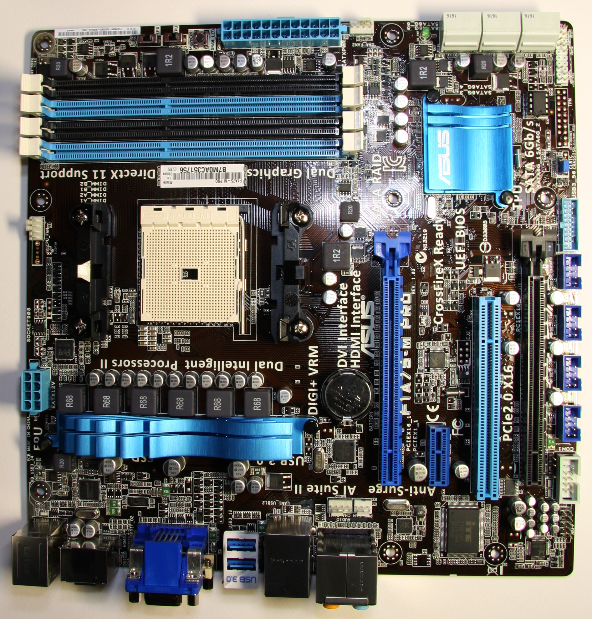 A F1A75-M PRO mainboard by ASUS